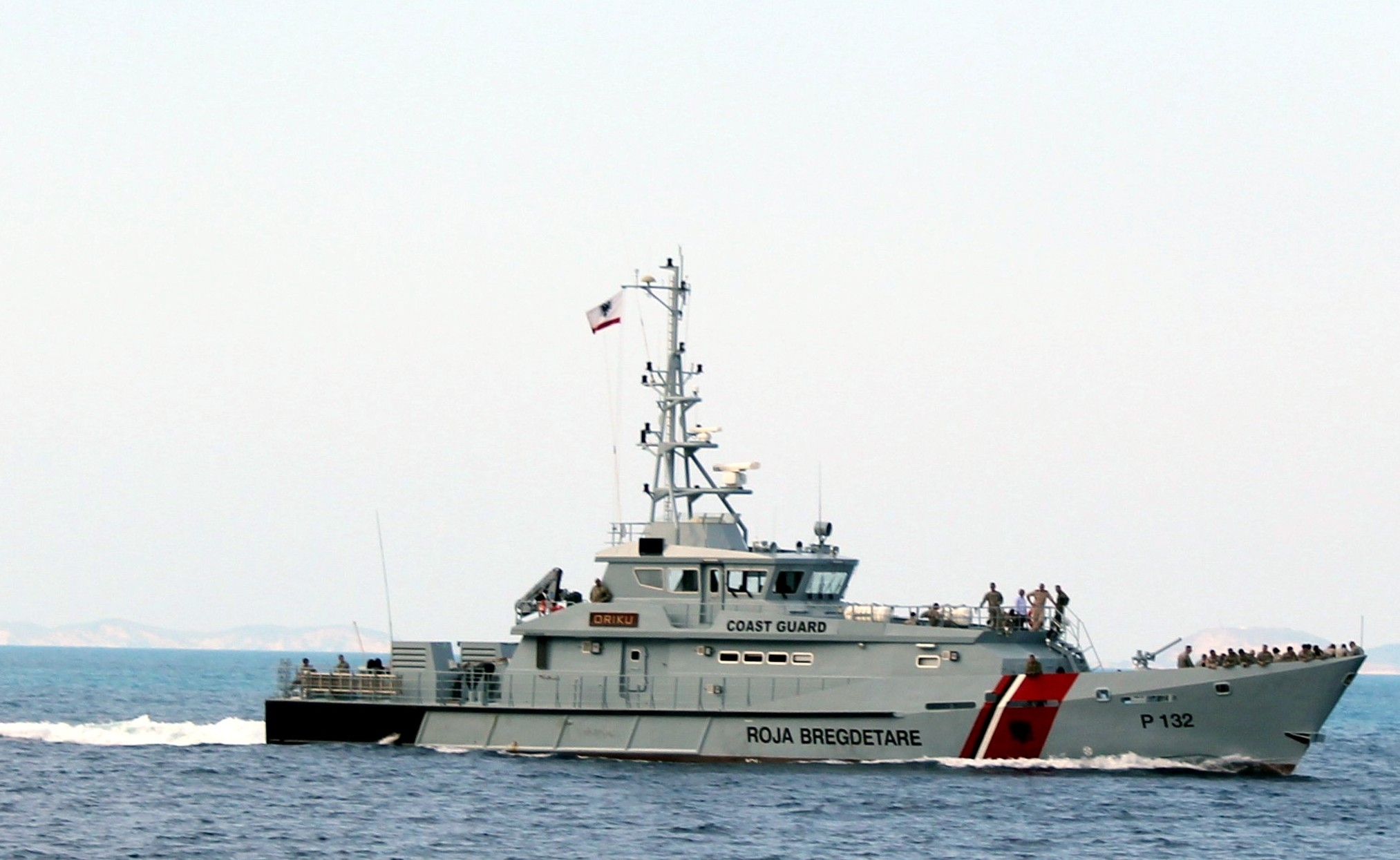 Albanian Coast Guard ship Oriku P138